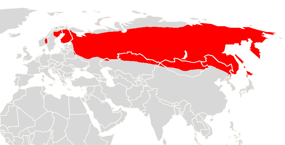 Eurasian Least Shrew (Sorex minutissimus), range map, depending on the range map at IUCN red list.